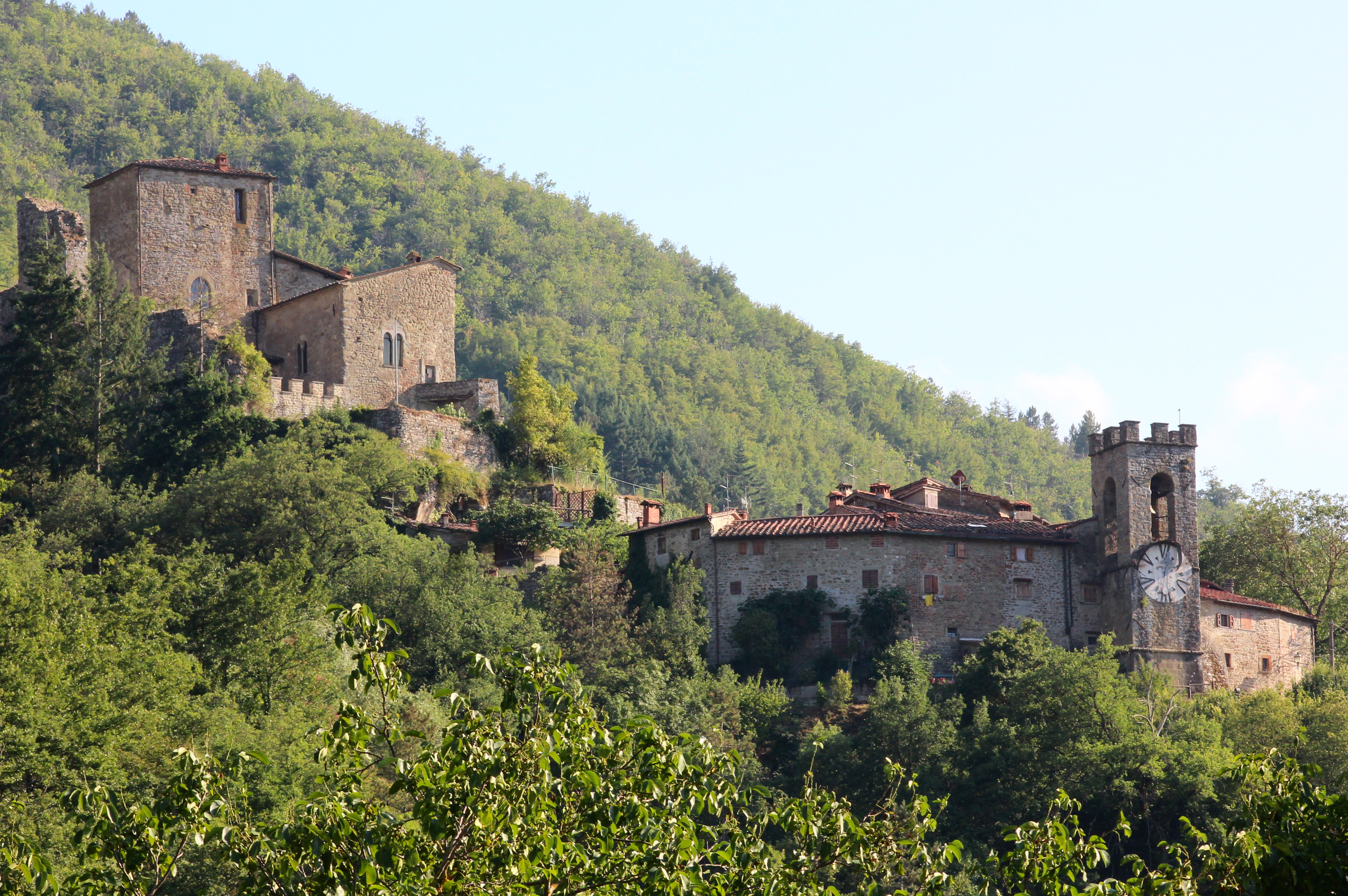 Castle of Castel San Niccolò, Casentino, Province of Arezzo, Tuscany, Italy